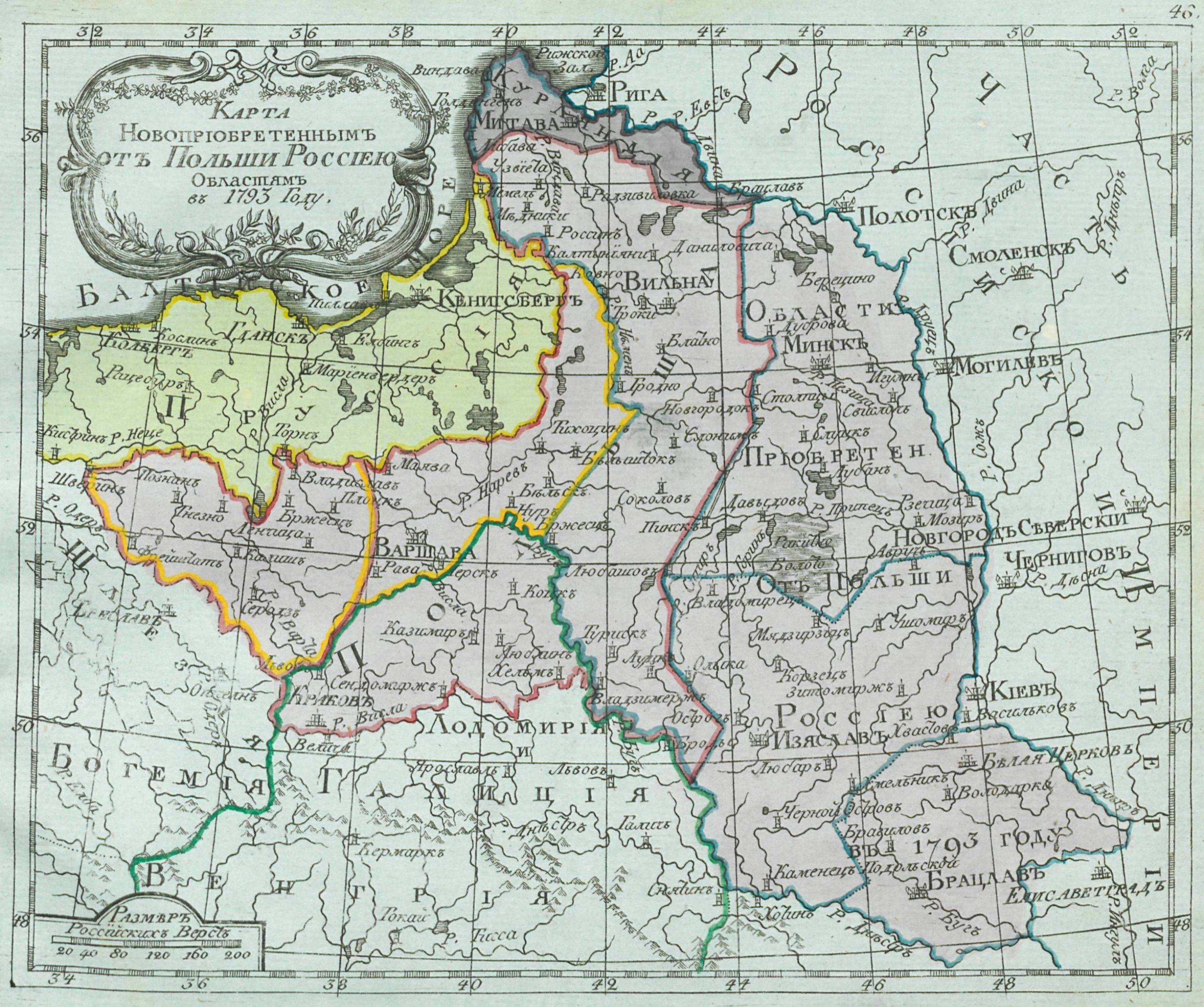 Small atlas of the Russian Empire (1792). Map of 2nd partition of Poland (sheet 46). This map added to atlas in 1793 of later.